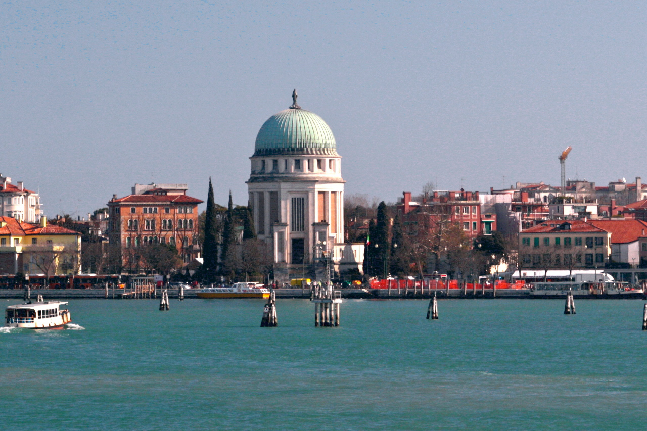 Shrine / burial to Nazario Sauro in Venice, Italy. The corpse of Nazario Sauro has been buried in that place since 1947